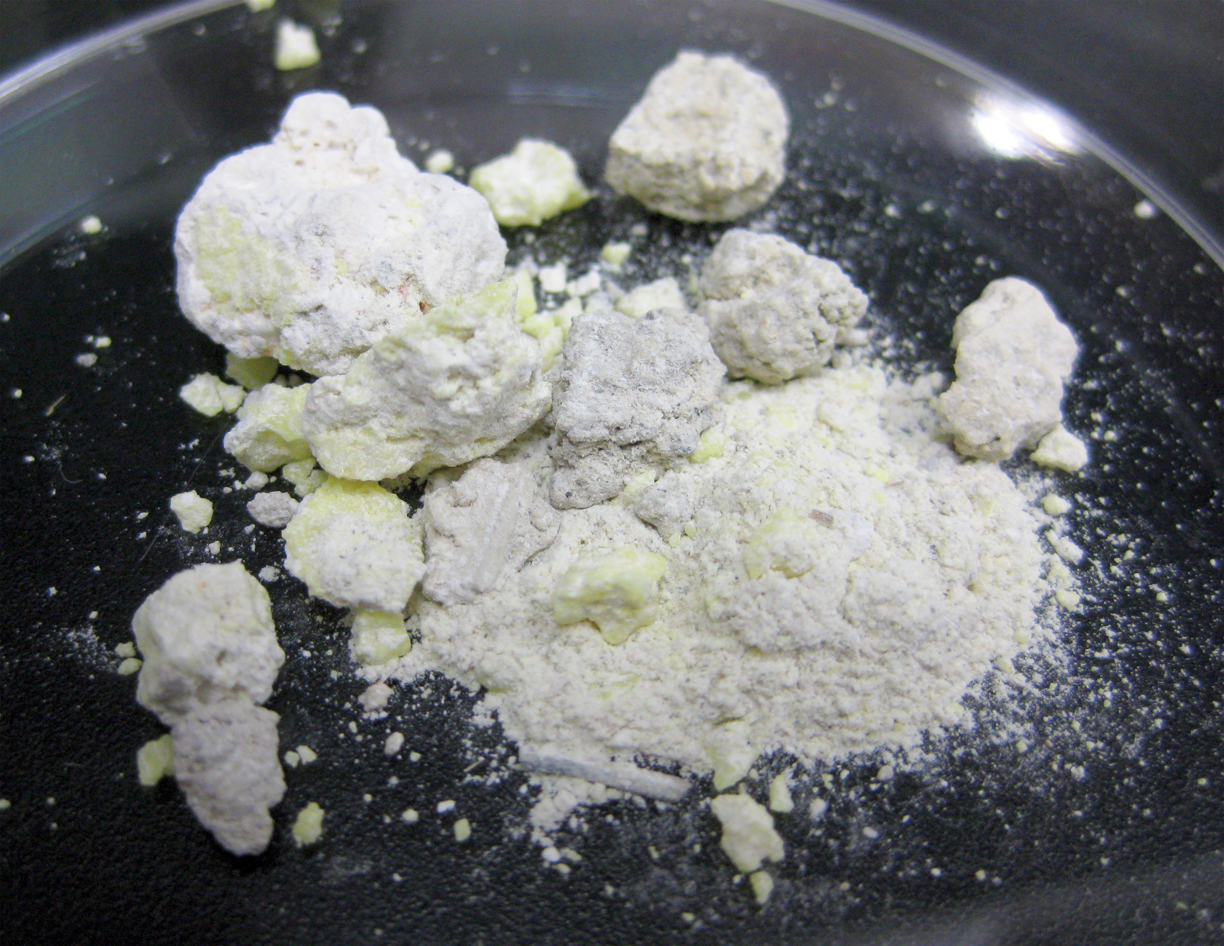 "Yunohana" (湯の花), the sulfuric sediment of the hot springs, containing sulfur phenocryst (yellow crystals). / from Sessho-seki, Nasu-machi, Tochigi Pref., Japan.